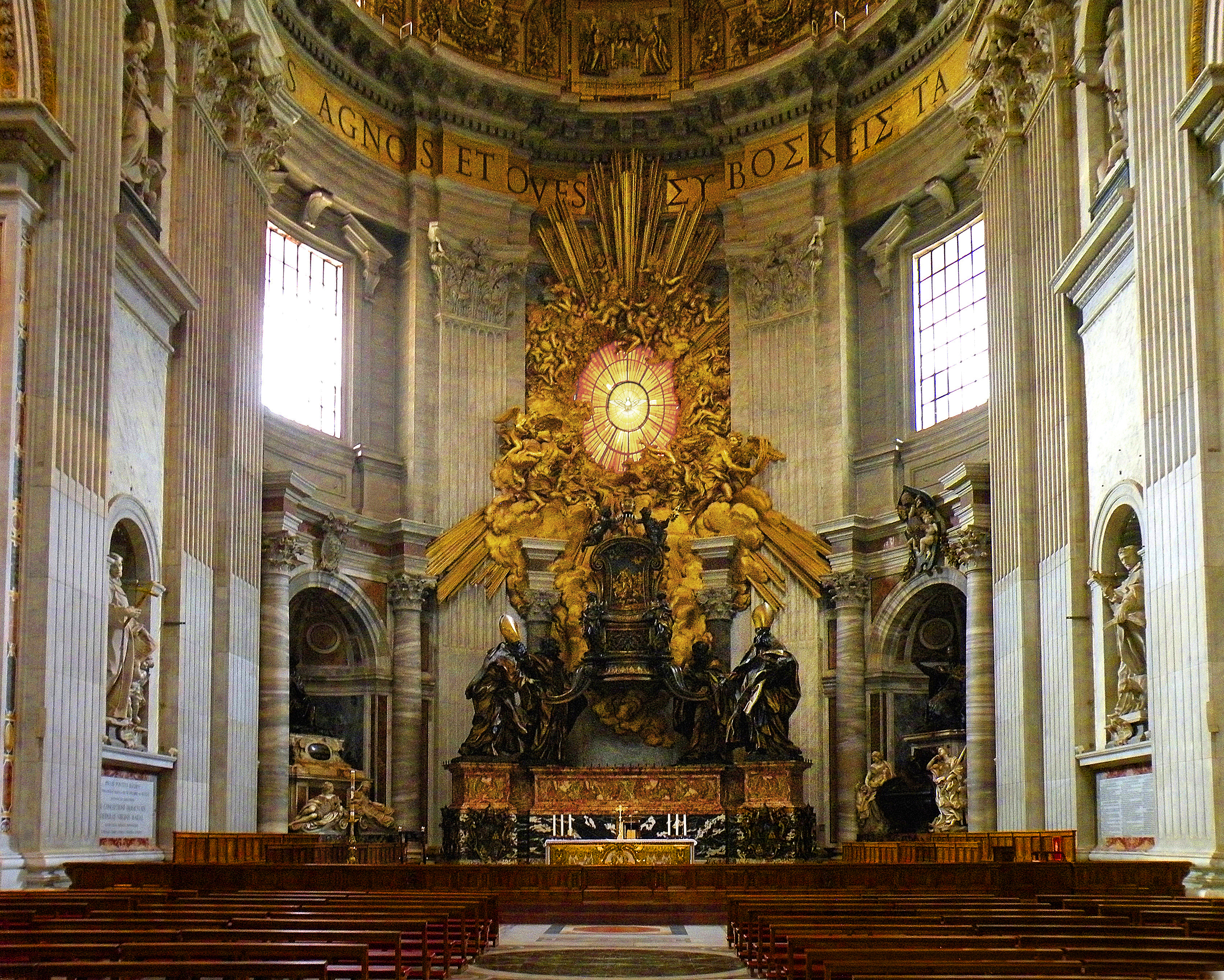 Saint Peter's Basilica, the apse, showing the Catedra of St Peter supported by four Doctors of the Church, and the Glory, designed by Bernini.